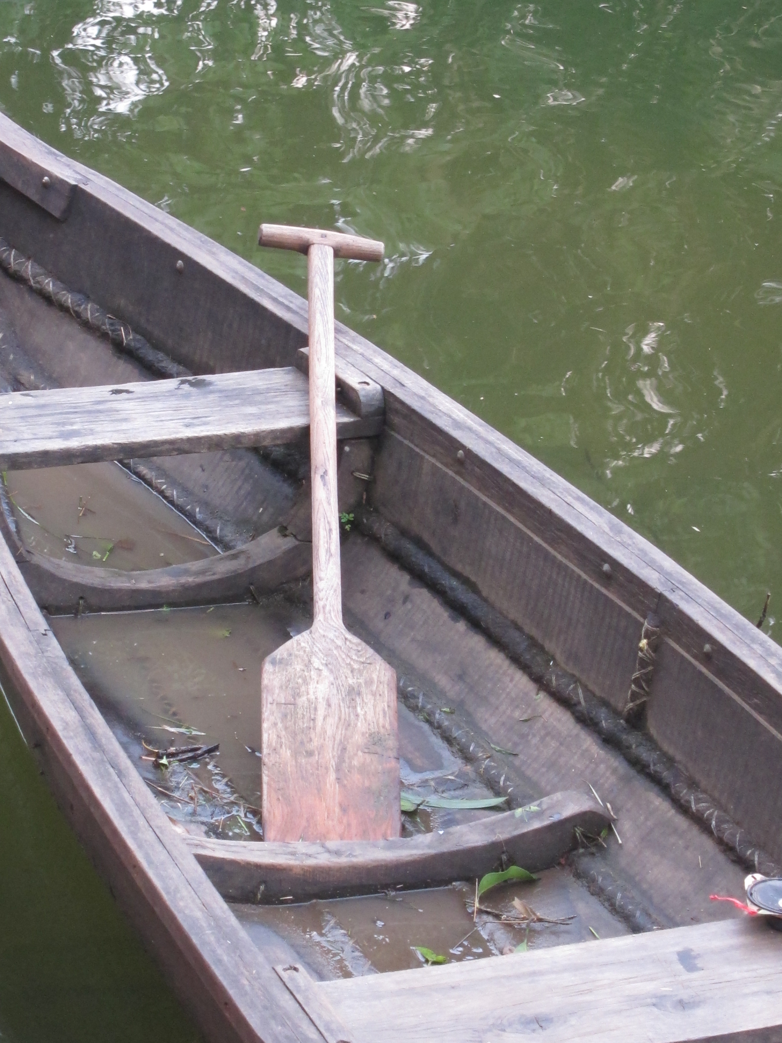 oar, paddle പങ്കായം, തുഴ